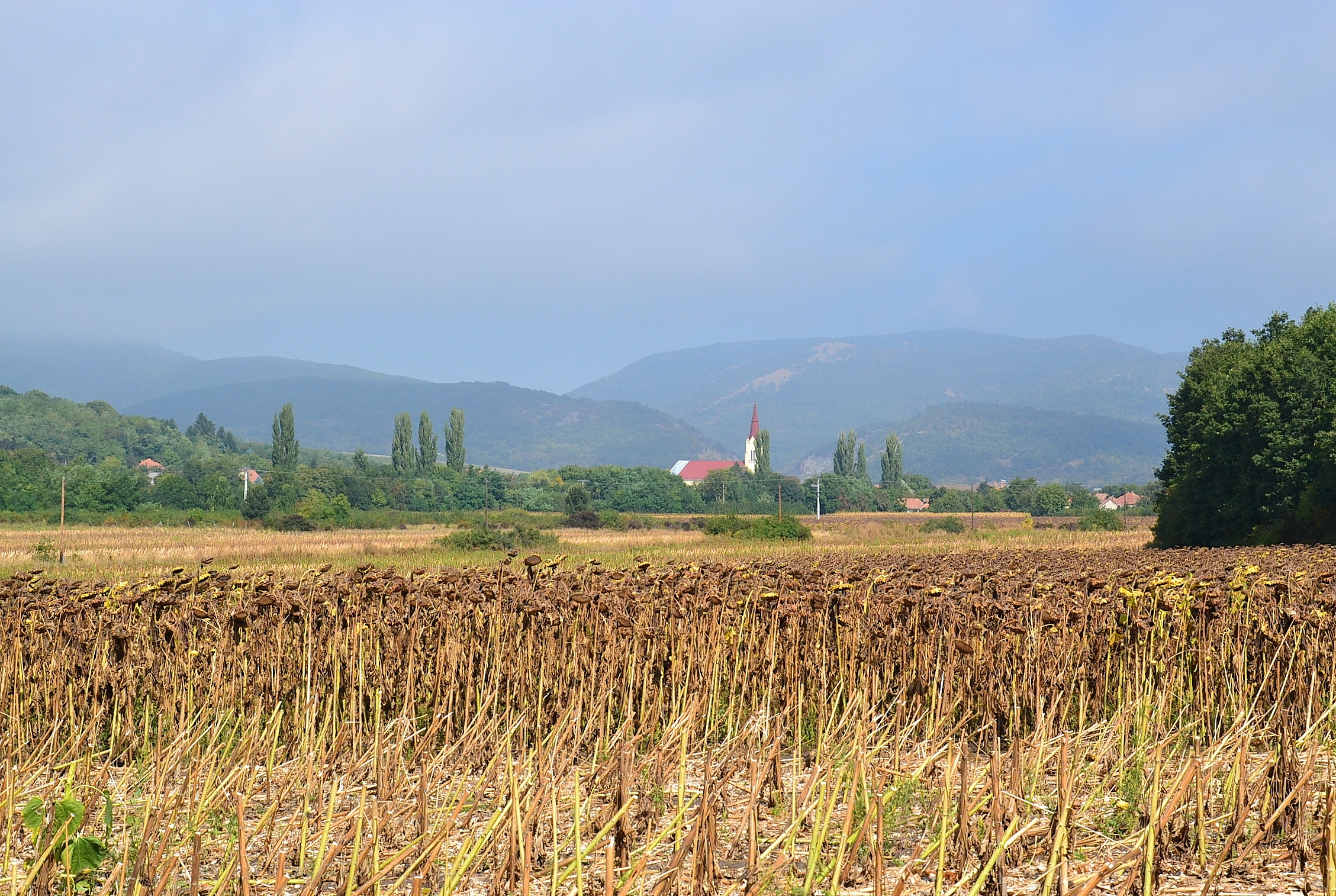 Cserépfalu village and Mounts of Bükk, Hungary